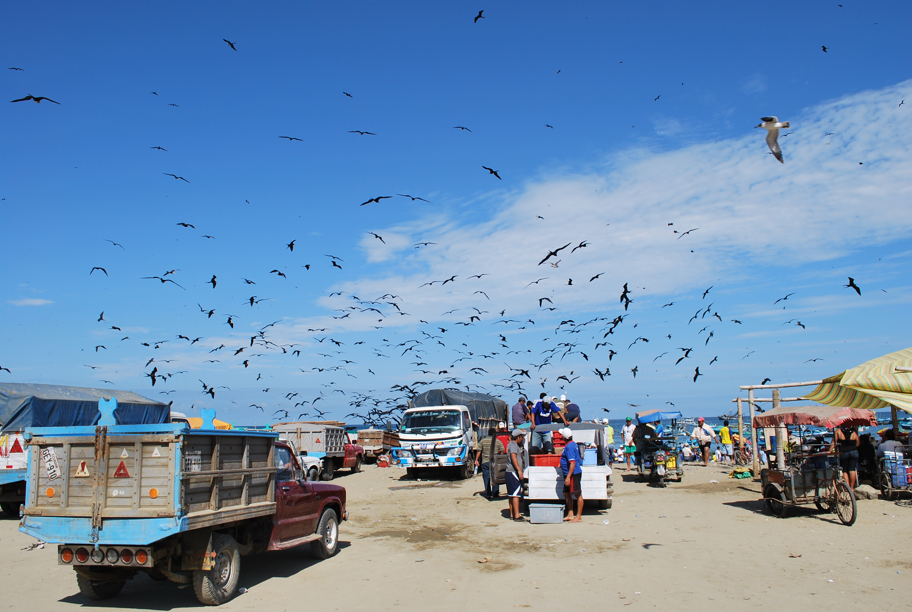 Local fisherman attract lots of sea birds as they prepare to load the day's catch in Puerto López, Manabí Province, Ecuador.